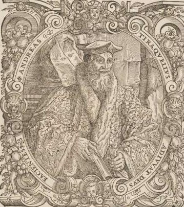 Portrait of André Tiraqueau (1488–1558), known as Tiraquellus, French jurist.